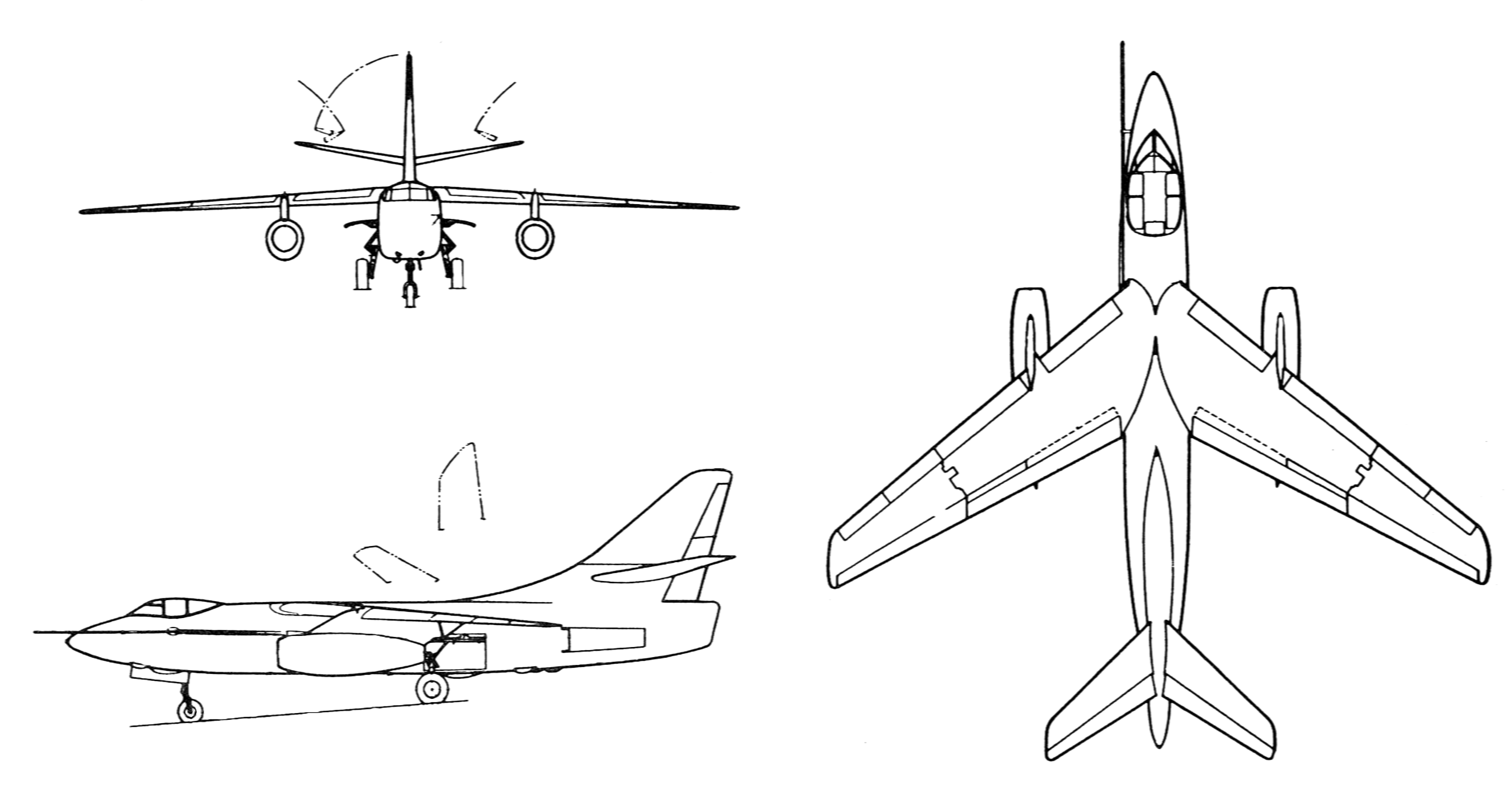 Line drawings for the Douglas A-3B Skywarrior.